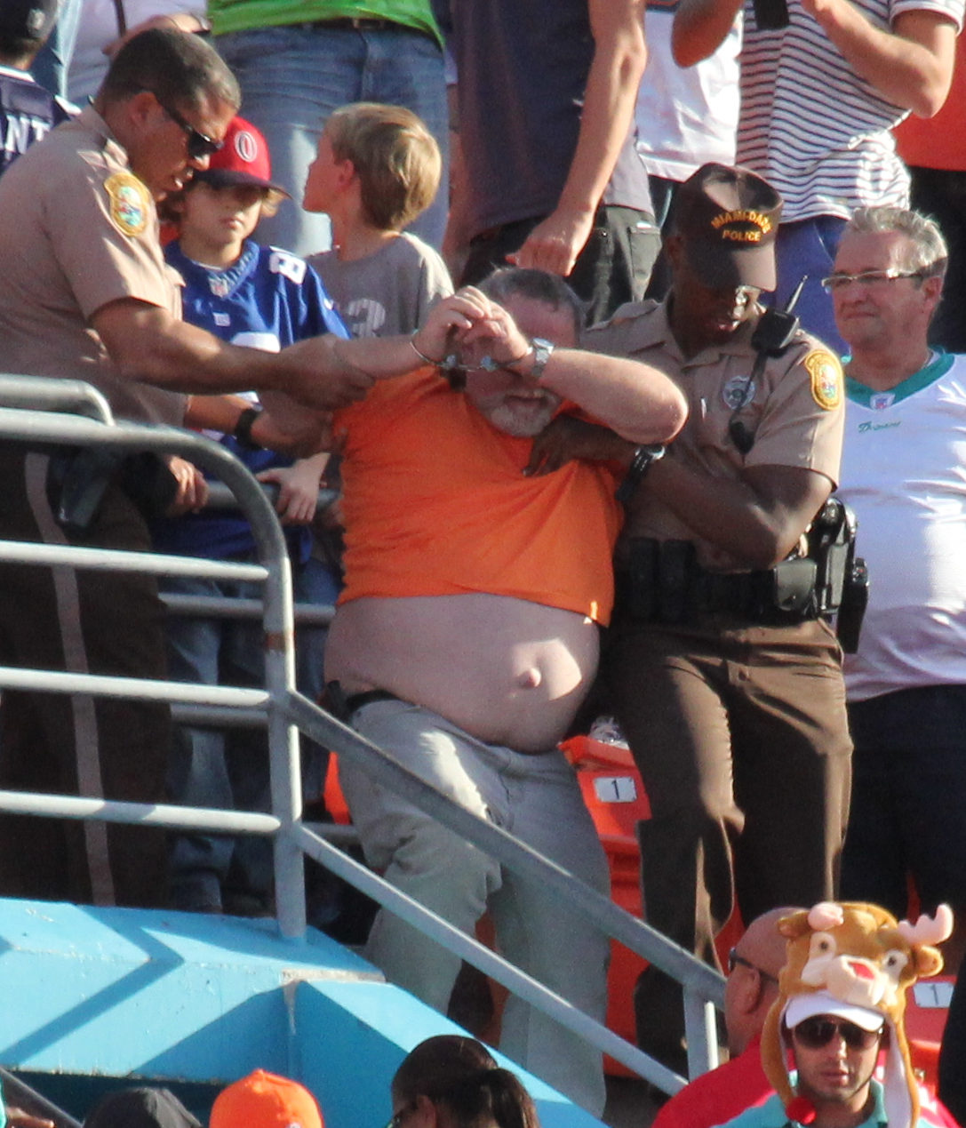 Unruly fan arrested by Miami-Dade Police at NFL game between Miami Dolphins and Buffalo Bills, Sun Life Stadium, 12/23/12)